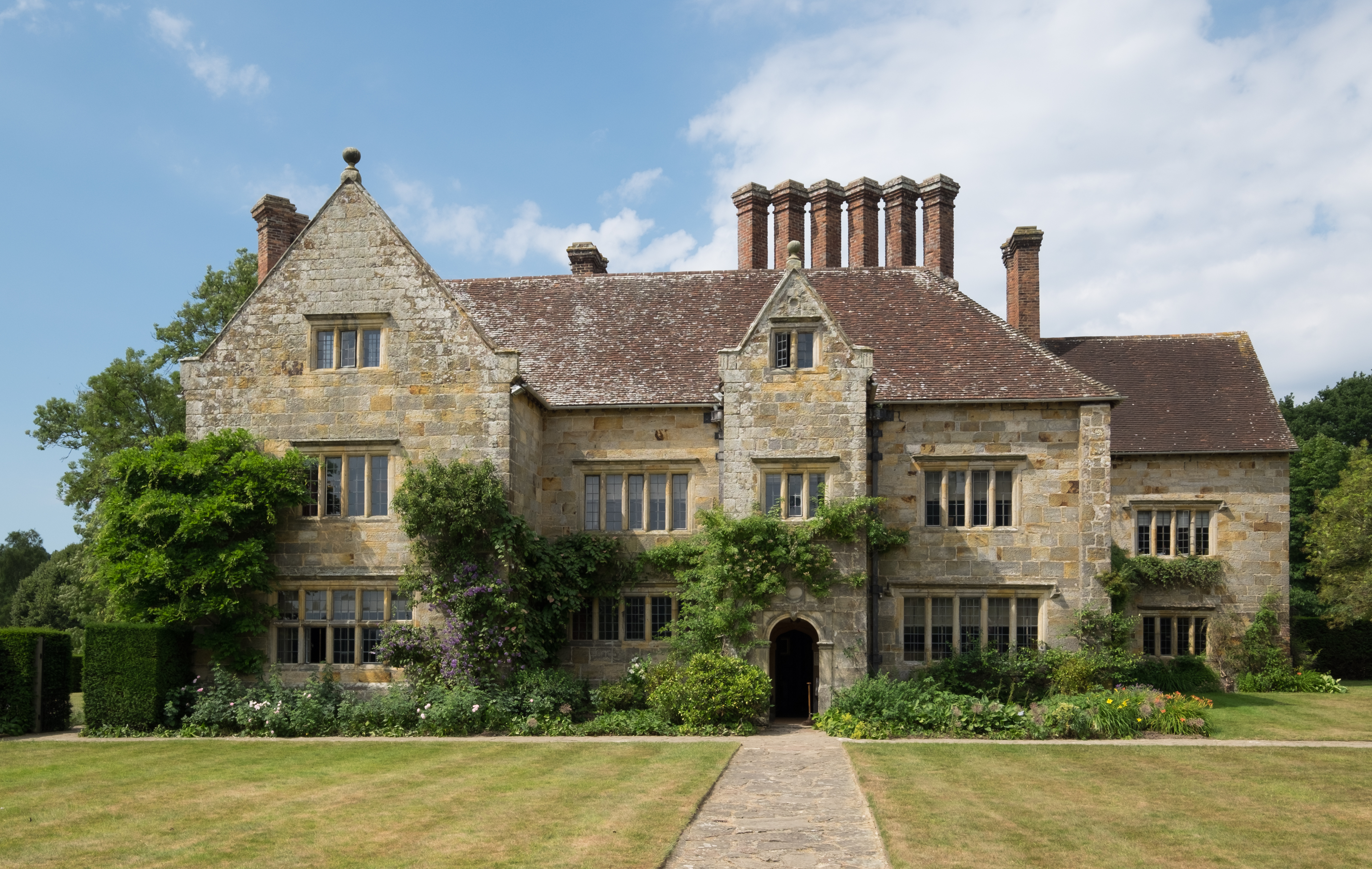 Bateman's, Burwash, East Sussex. This 17th century house, which was the home of Rudyard Kipling from 1902 until his death in 1936, is a grade I listed building in England.